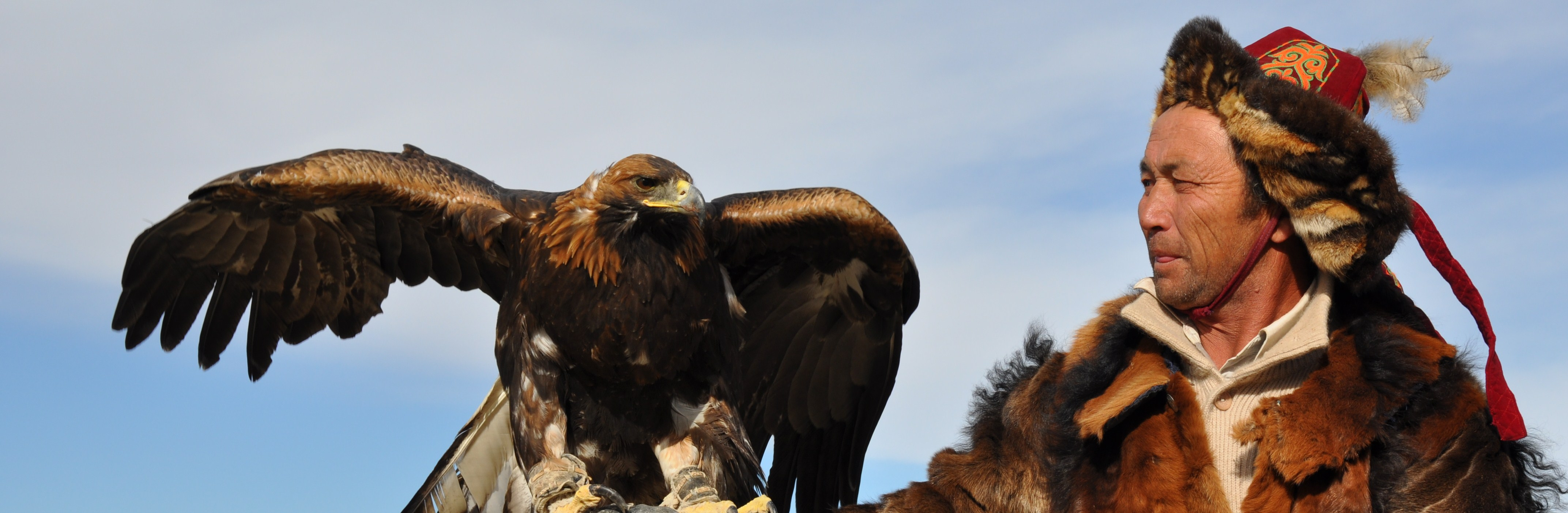 Kazakh eagle hunter (berkutchi) in Olgii, Mongolia.